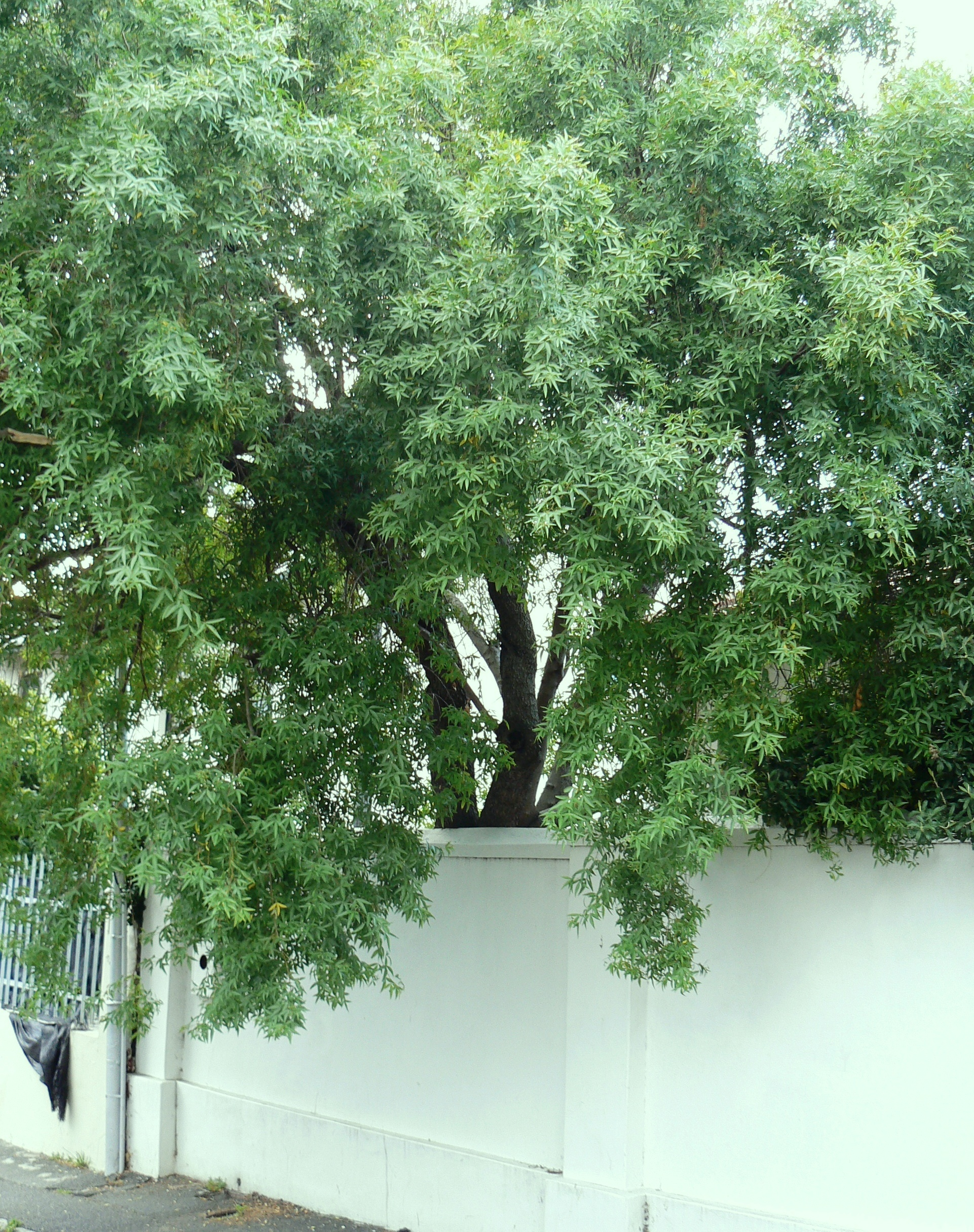 Searsia pendulina - Wit Karee - prev Rhus